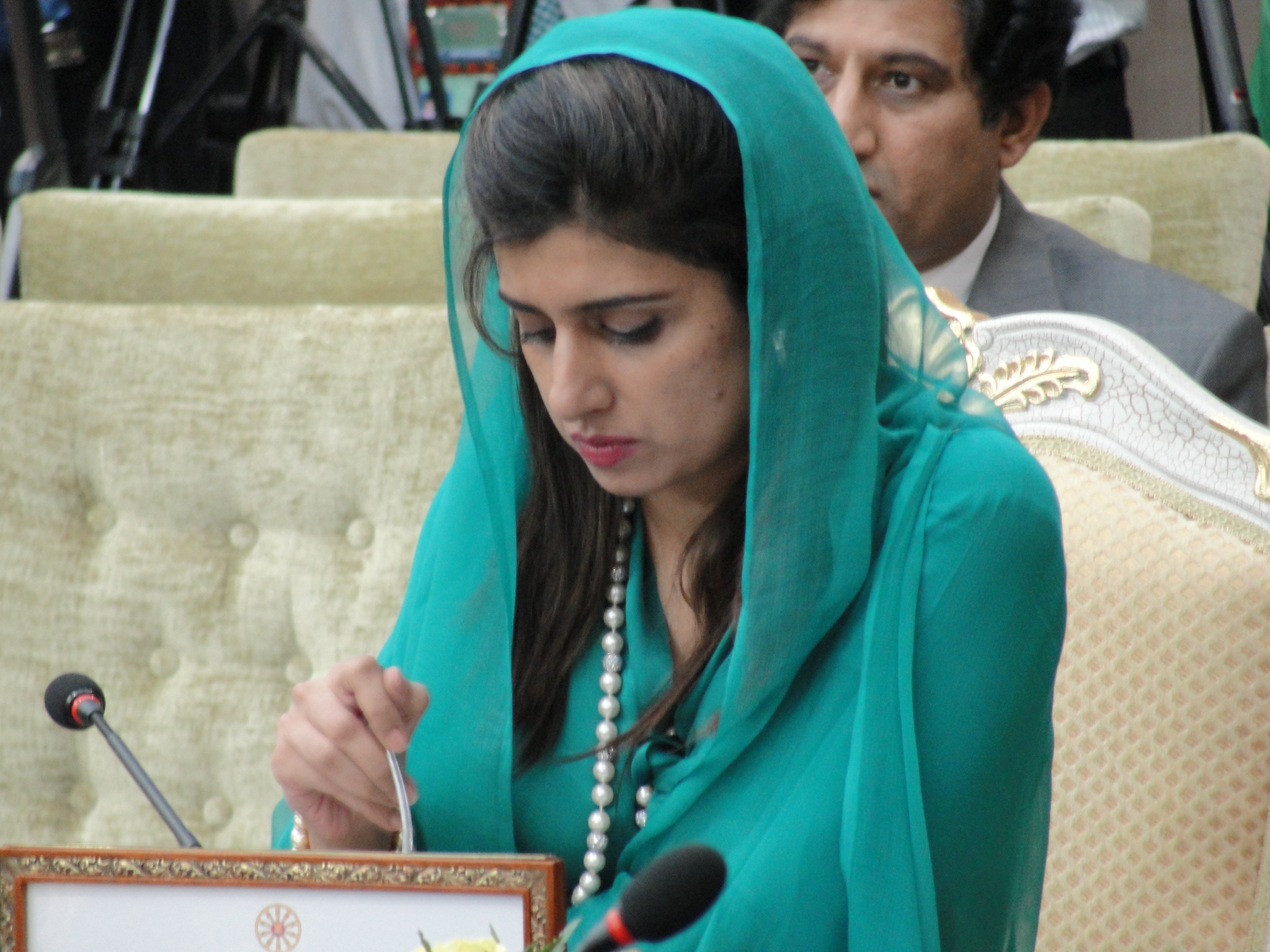 H.E. Ms Hina Rabbani Khar, Minister for external affairs of Pakistan, having lunch right at her working table. Phnom Peng, East Asia Summit Ministerial meeting, July 2012.